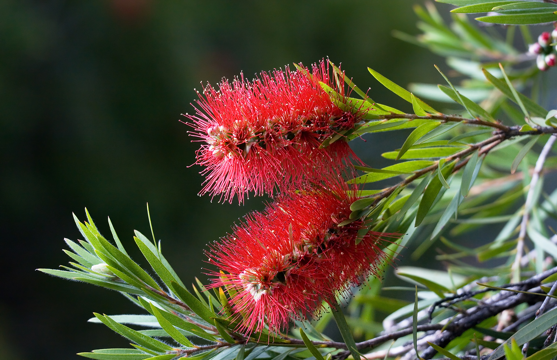 Crimson Bottlebrush (Callistemon citrinus) Camera data Camera Canon EOS 400D Lens Canon EF 70-200mm f4L w/ 12mm extension tubes Flash Umbrella left Focal length 104 mm Aperture f/5.6 Exposure time 1/160 s Sensivity ISO 400